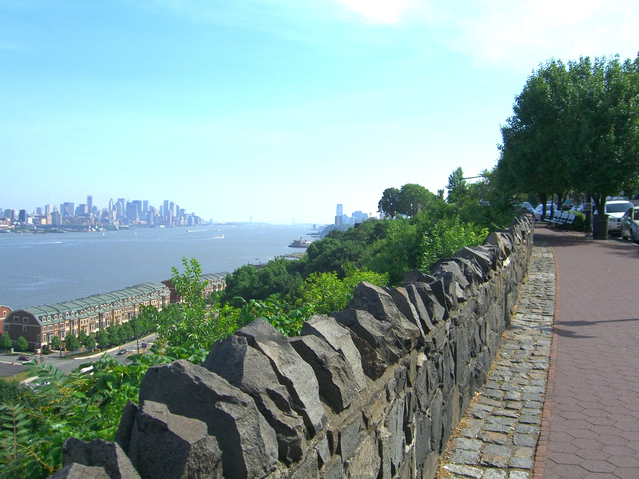 Looking south from Boulevard East at Columbia Terrace in Weehawken, New Jersey. At left is the skyline of Lower Manhattan. In the center background is the Goldman Sachs Tower in Jersey City, the tallest building in New Jersey. Photographed by Luigi Novi. This photo may be used, modified and published for any purpose, only if an easily visible credit to the photographer is placed near the photo in each instance in which it is used. (See licensing information below.) Publication of this photo without this proper attribution constitutes copyright infringement. For more information on my photos, you can contact me here.